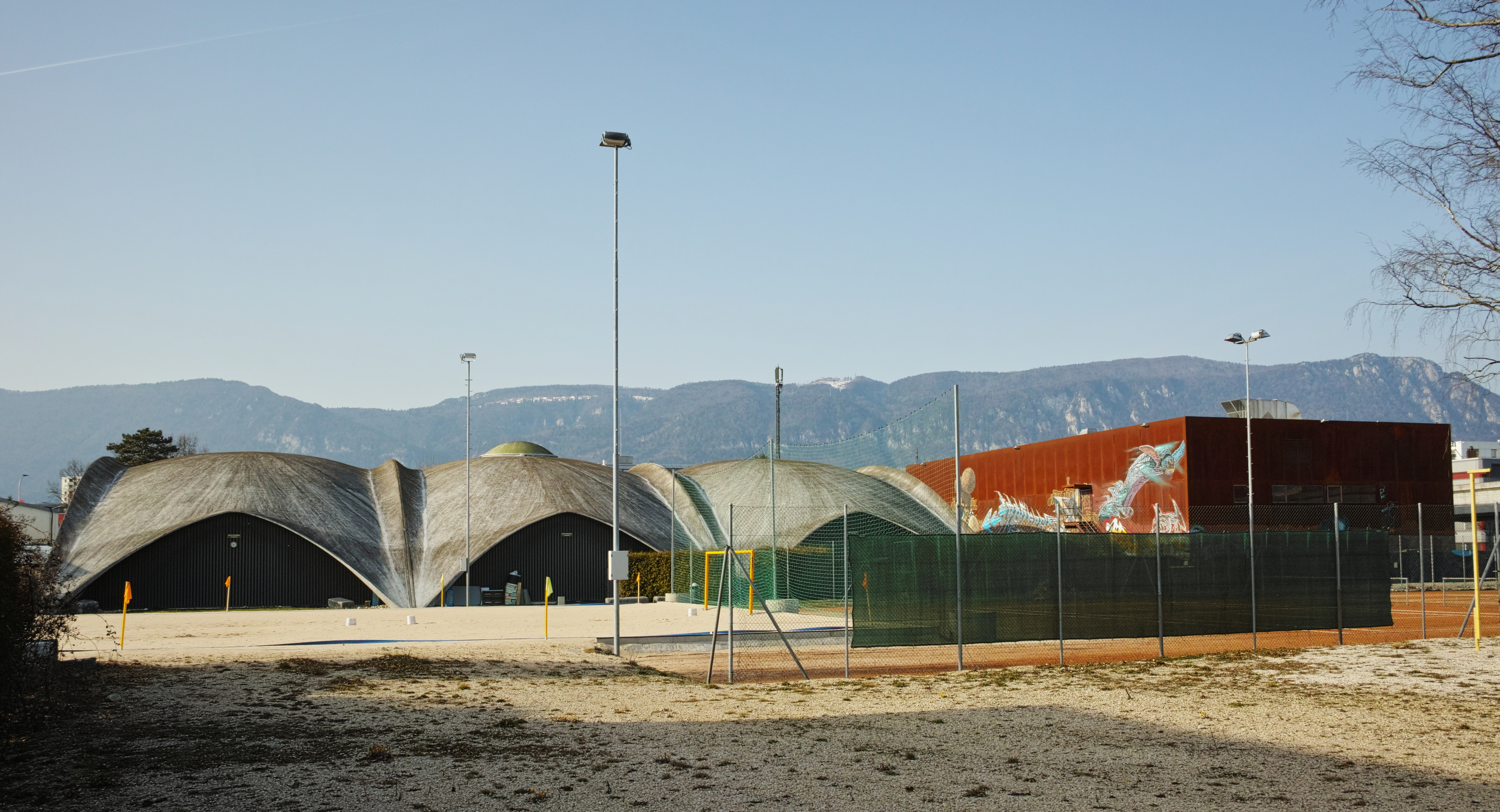 In Solothurn, Switzerland. To the left: sports hall ("CIS"), concrete shells by engineer Heinz Isler. To the right: "Kulturfabrik Kofmehl" concert venue. In the background: Weissenstein mountain range.